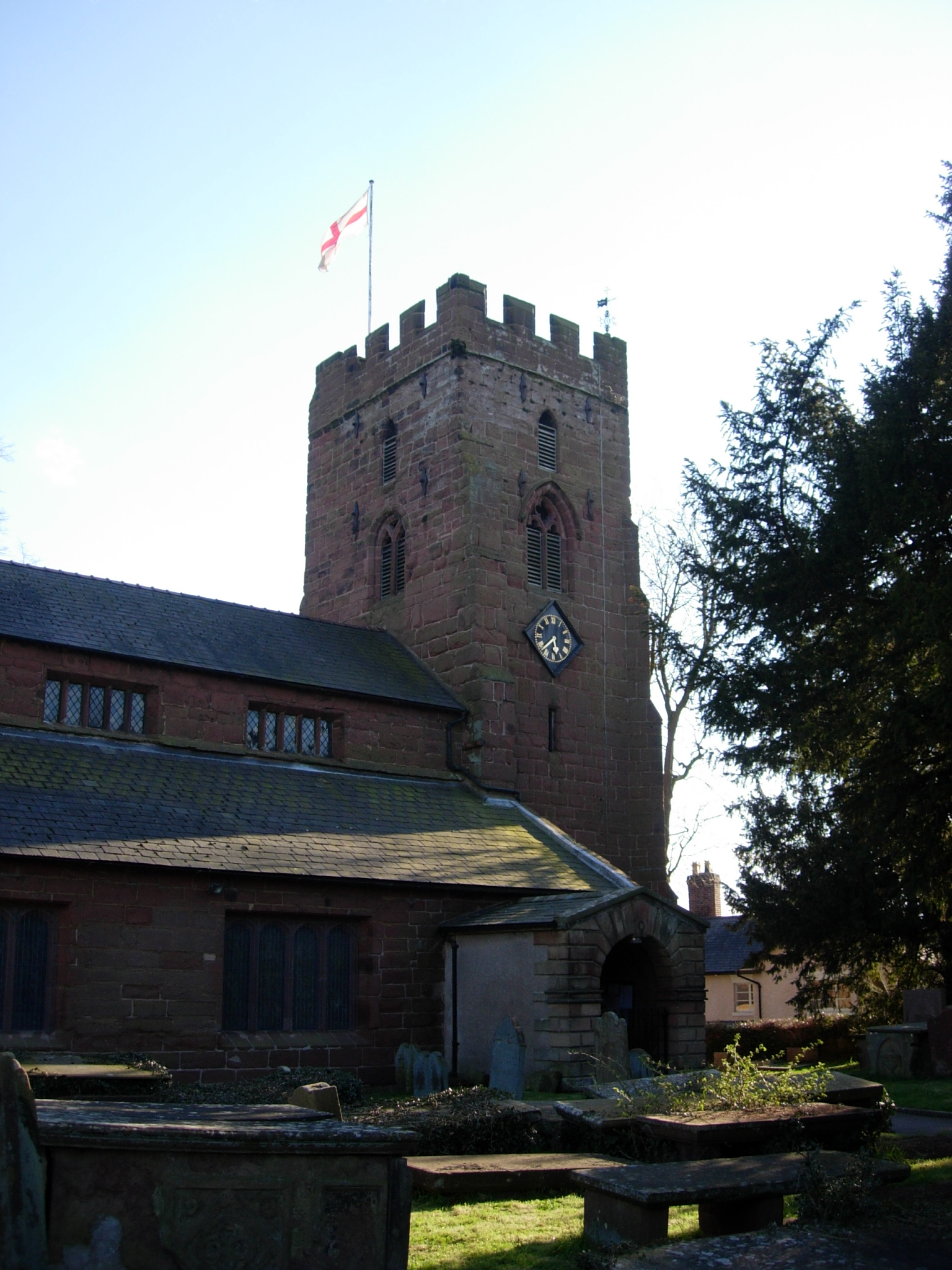 Russ McGinn